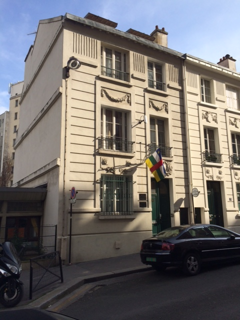 Embassy of the Central African Republic in Paris